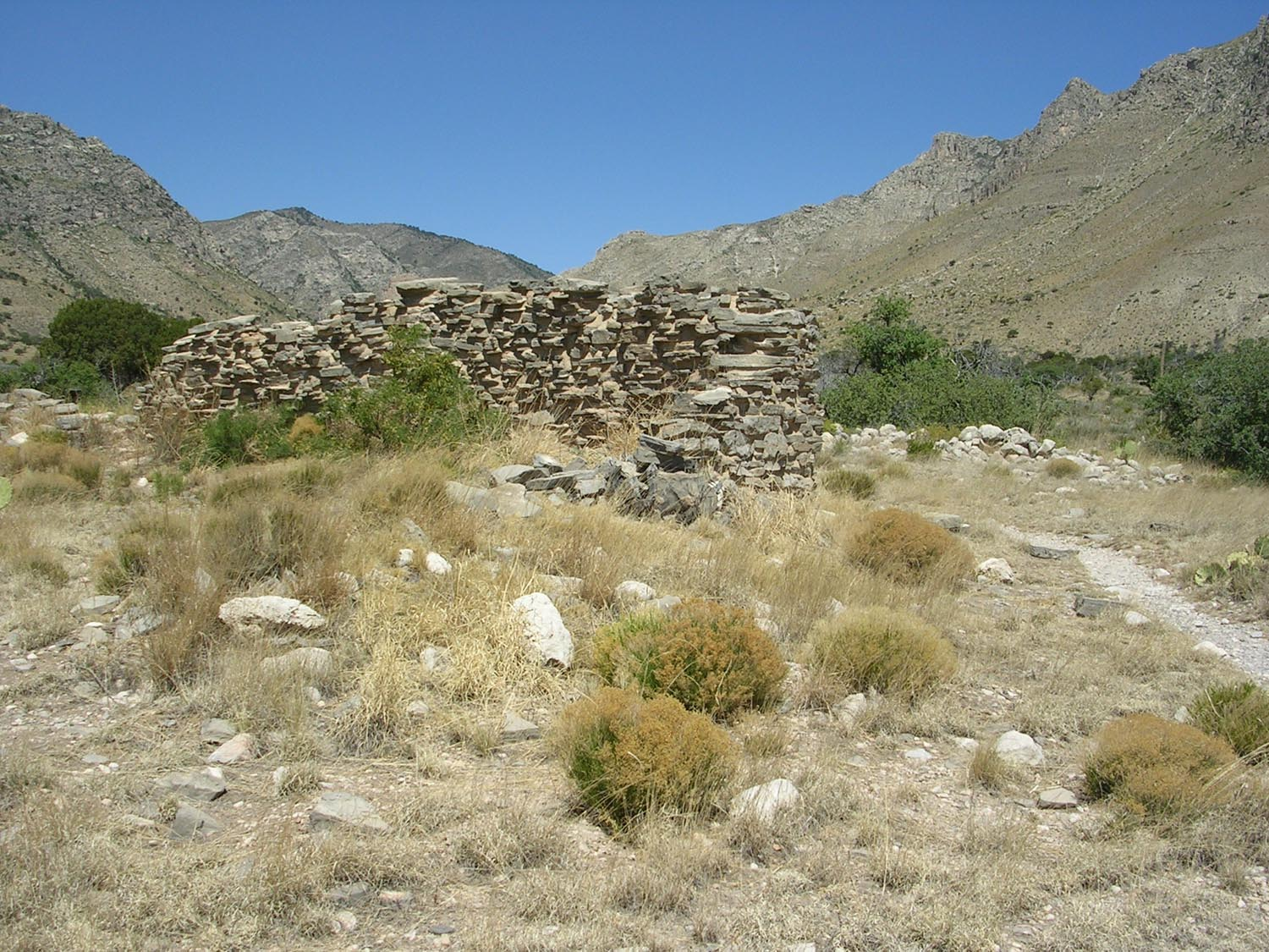 Pinery Stage Coach Station in Guadalupe Mountains National Park, Texas, USA